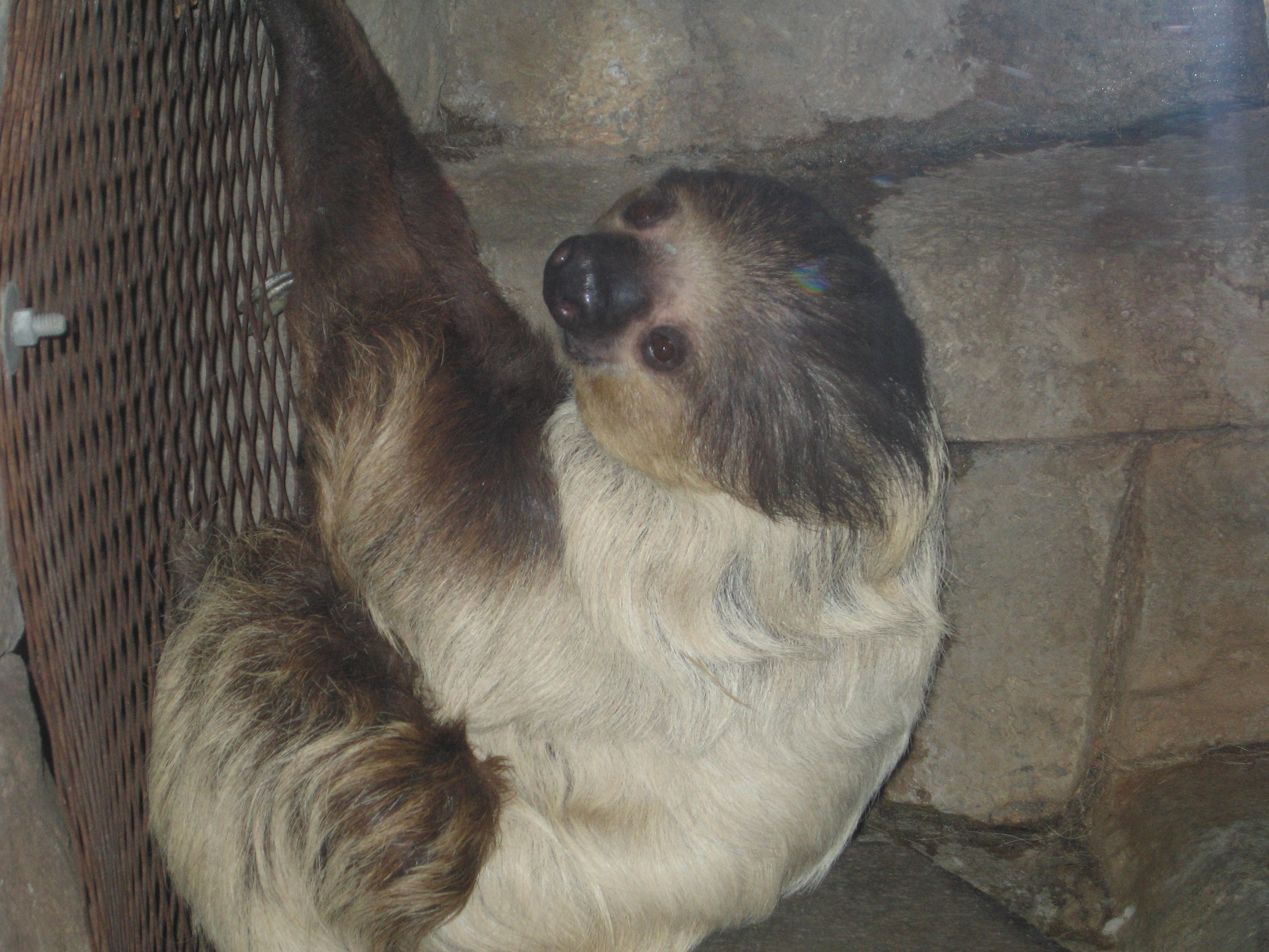 Hoffmann's Two-toed Sloth (Choloepus hoffmanni) in Milwaukee County Zoological Gardens